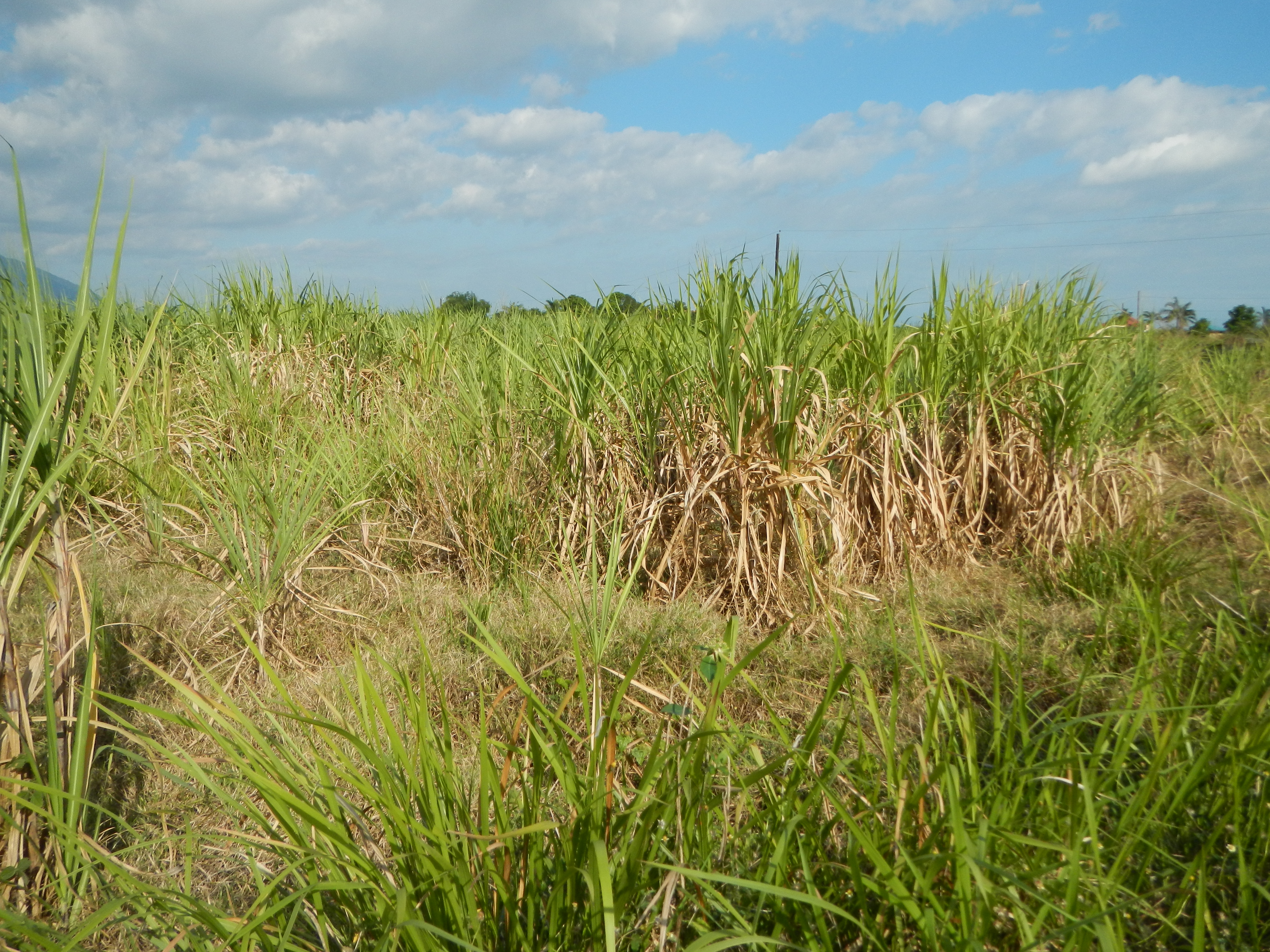 Barangay Nueva Victoria, Mexico, Pampanga (landmarks are The Lakeshore, Nueva Victoria, Mexico, Pampanga, Covered Court beside the Barangay Hall and nearby Chapel from its Welcome Arch with Sugarcane fields, Sugar cane in the Philippines).